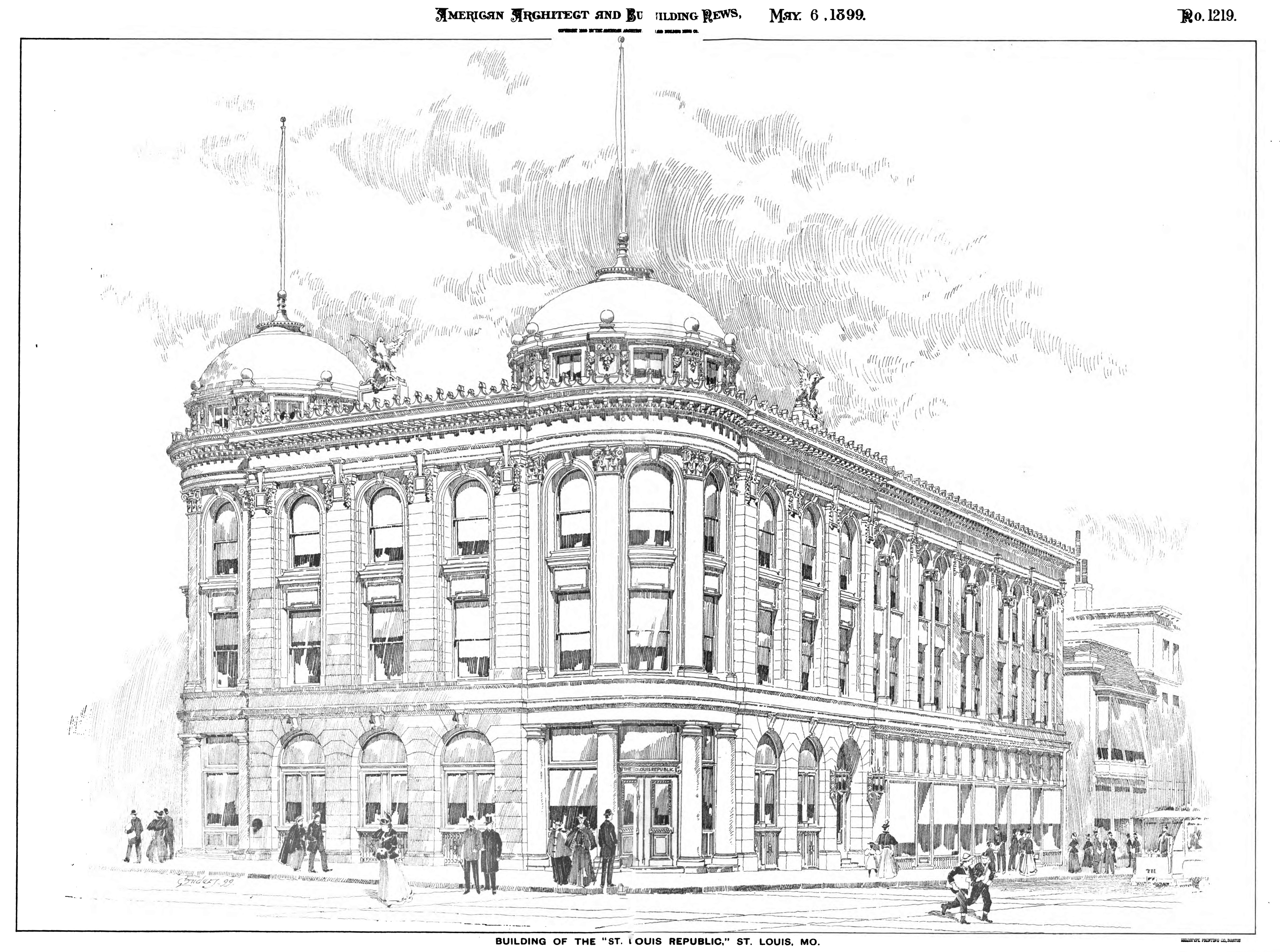 Rendering of the St. Louis _Republic_ Building, designed by Isaac S. Taylor, from the _American Architect and Building News_, 6 May 1899.